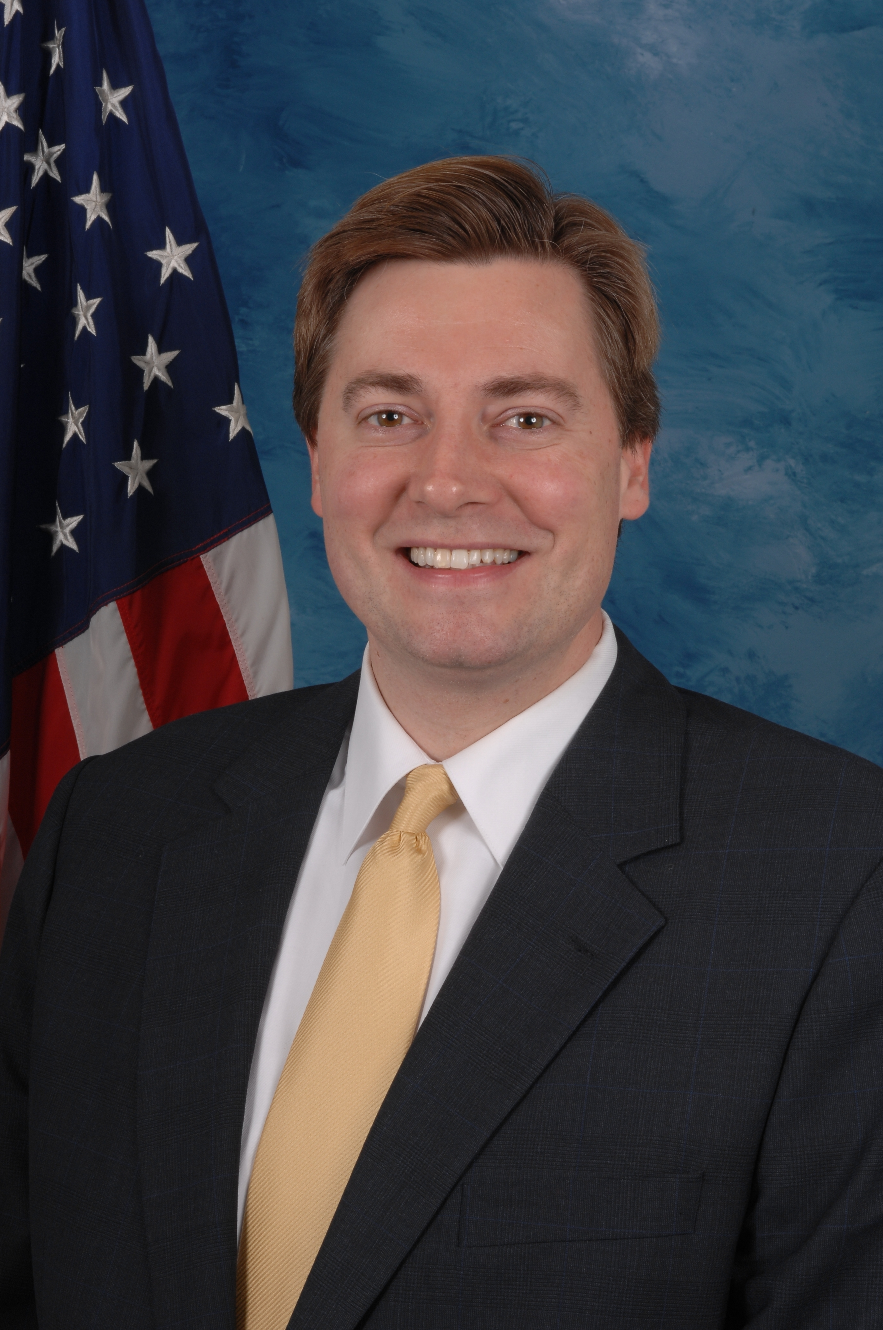 Jason Altmire, member of the United States House of Representatives.